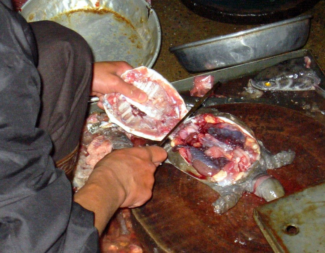 slaughtered turtle on a market in Hanoi, Vietnam